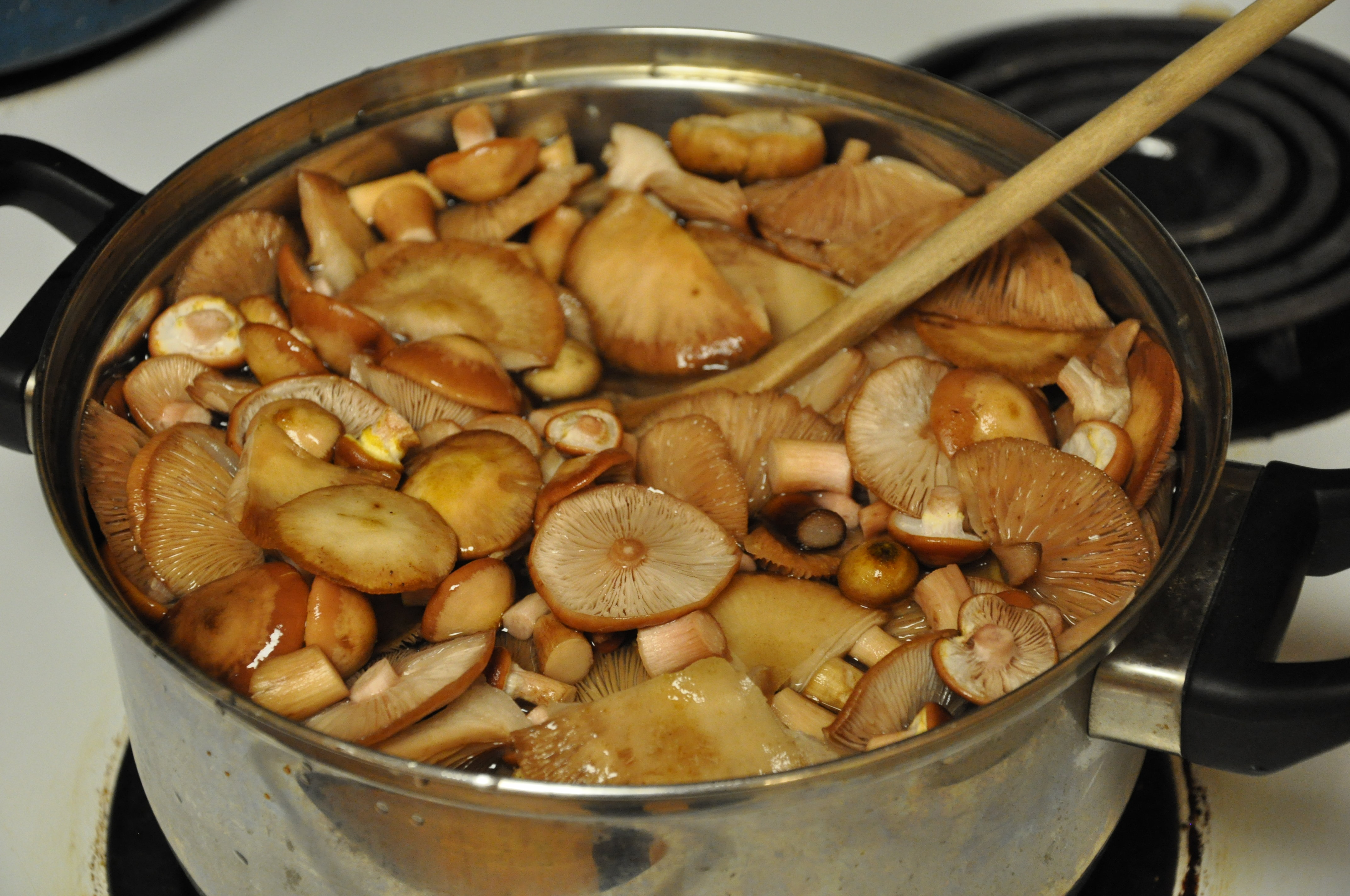 Honey mushrooms (Armillaria mellea) being boiled for marinating.